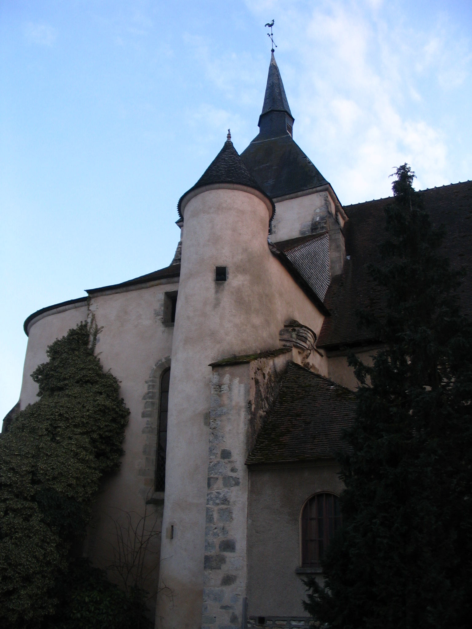 St. Denis' church, in Reuilly, Indre, France.